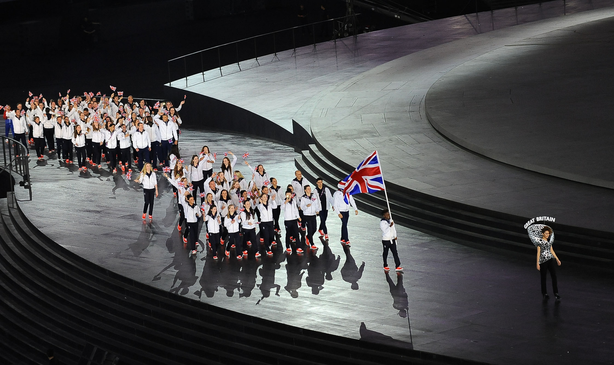 The opening ceremony of the First European games